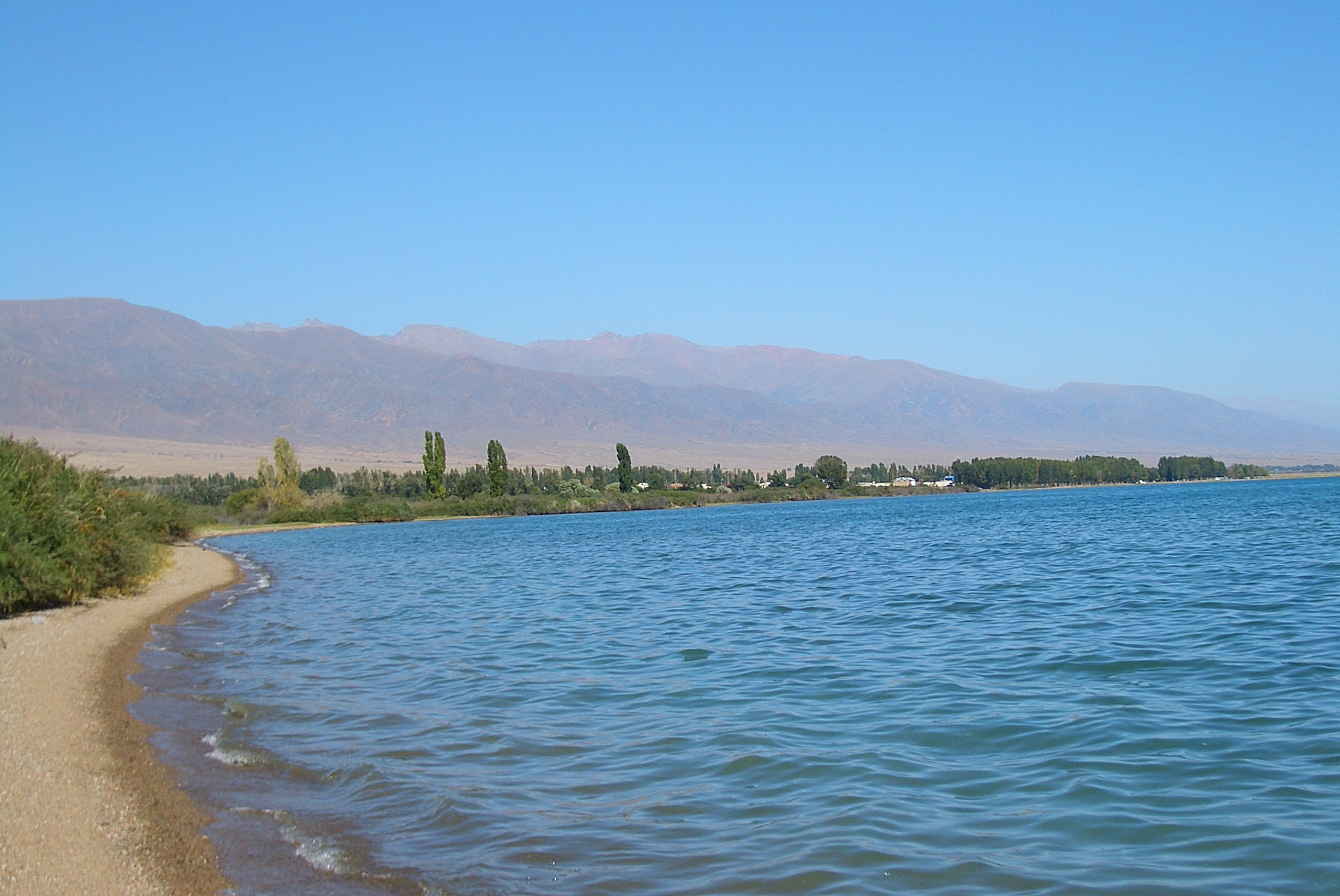 Looking east toward Tamchy from a point on Lake Issyk Kul shore betwen Tamchy and Kosh Kol.